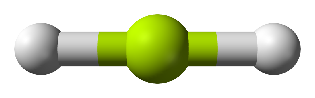 Ball-and-stick model of the beryllium hydride molecule, as observed in the gas phase. IR structural data from Peter F. Bernath, Alireza Shayesteh, Keith Tereszchuk, Reginald Colin (2002). "The Vibration-Rotation Emission Spectrum of Free BeH2". Science 297 (5585): 1323 - 1324. Image generated in Accelrys DS Visualizer.